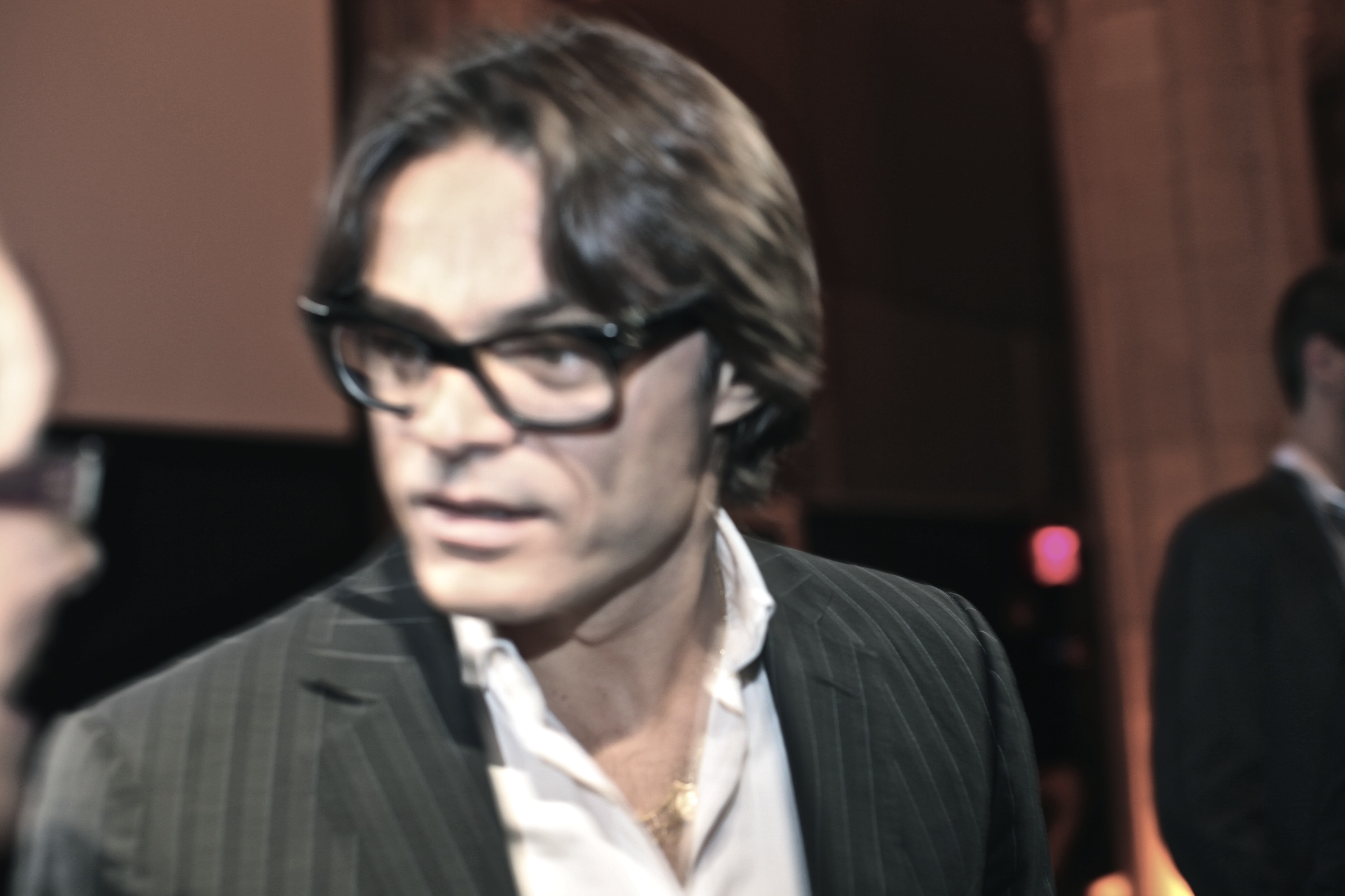 Pirelli Celebrates The Global Launch Of The 2012 Pirelli Calendar By Mario Sorrenti